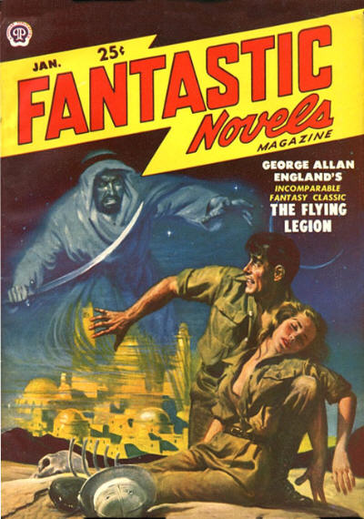 Fantastic Novels, Januaryr 1950